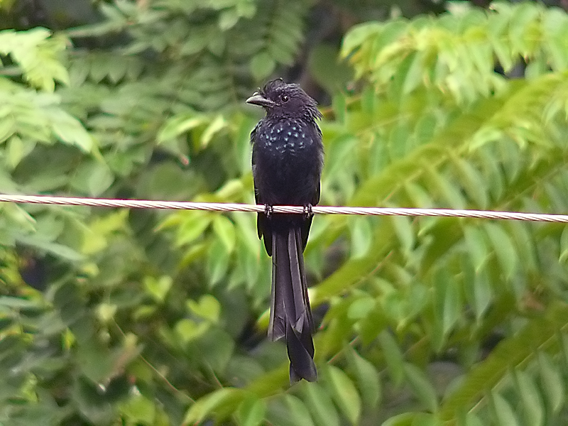 In this photo you can see its prominent crest but this birds wire-like tail extensions weren't long as can be seen here . Though this bird likes to attract attention with its mimicry, it is not easy to capture. A pretty audacious bird that does not hesitate to take on much bigger birds. Solitary and arboreal, but often descends to low bushes. Eats mostly insects. Very noisy and has a wide range of whistling calls.